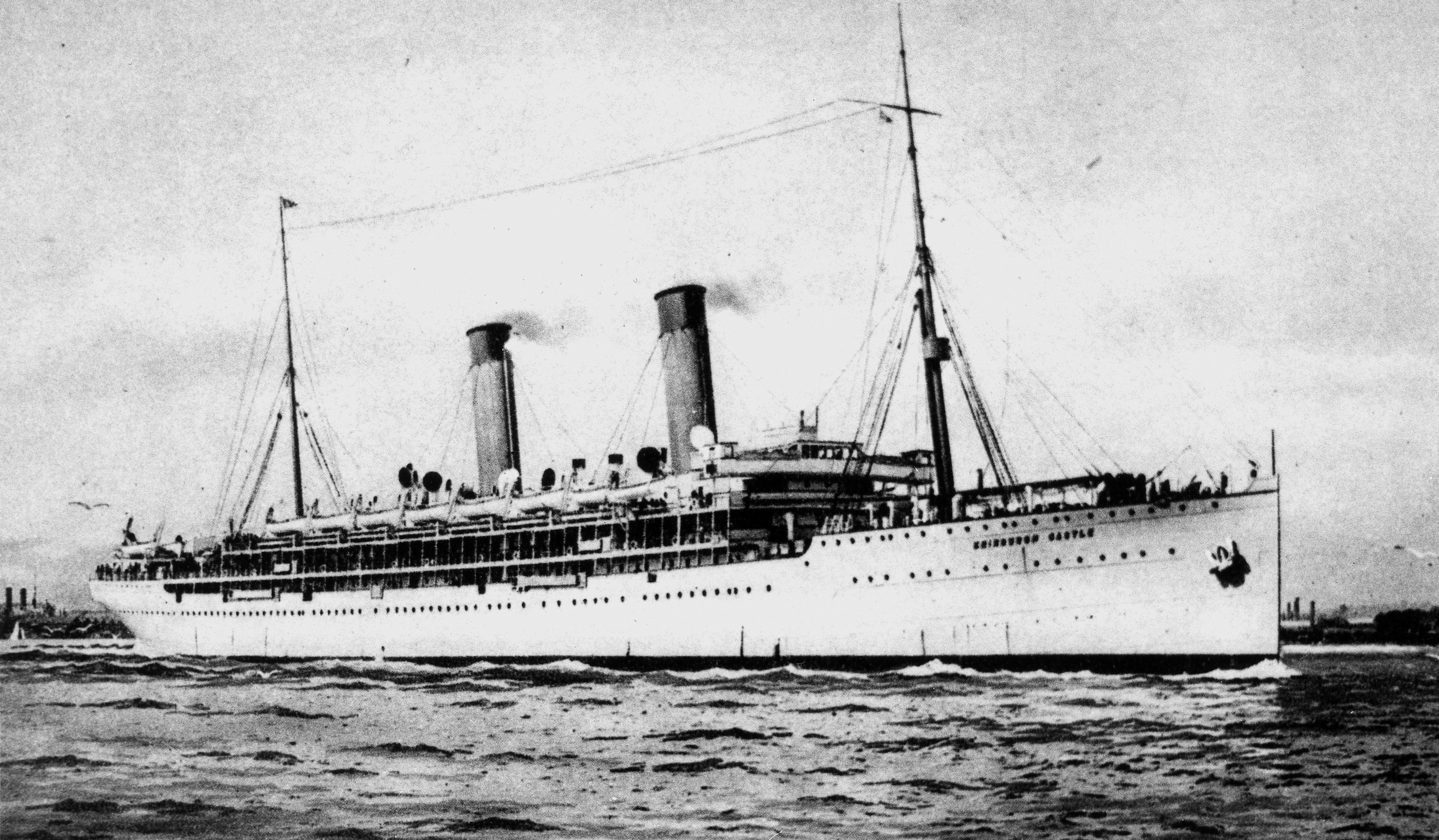 The 13,329 GRT Union-Castle liner Edinburgh Castle, built by Harland and Wolff in Belfast in 1910 and laid up in 1938. In the Second World war the Admiralty acquired her as an accommodation ship for Freetown, Sierra Leone. In 1945 she was scuttled off Sierra Leone as towing her back to the UK was deemed uneconomic.